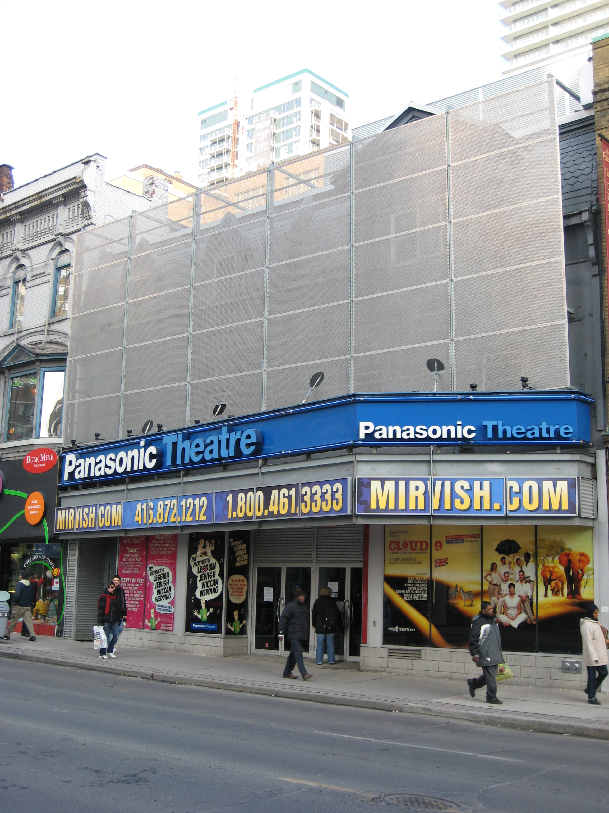 Panasonic Theatre. Originally built as a private residence in 1910-11, the building was converted into a theatre in 1919; the theatre was completed rebuilt in 2005, with only a portion of the front facade remaining.